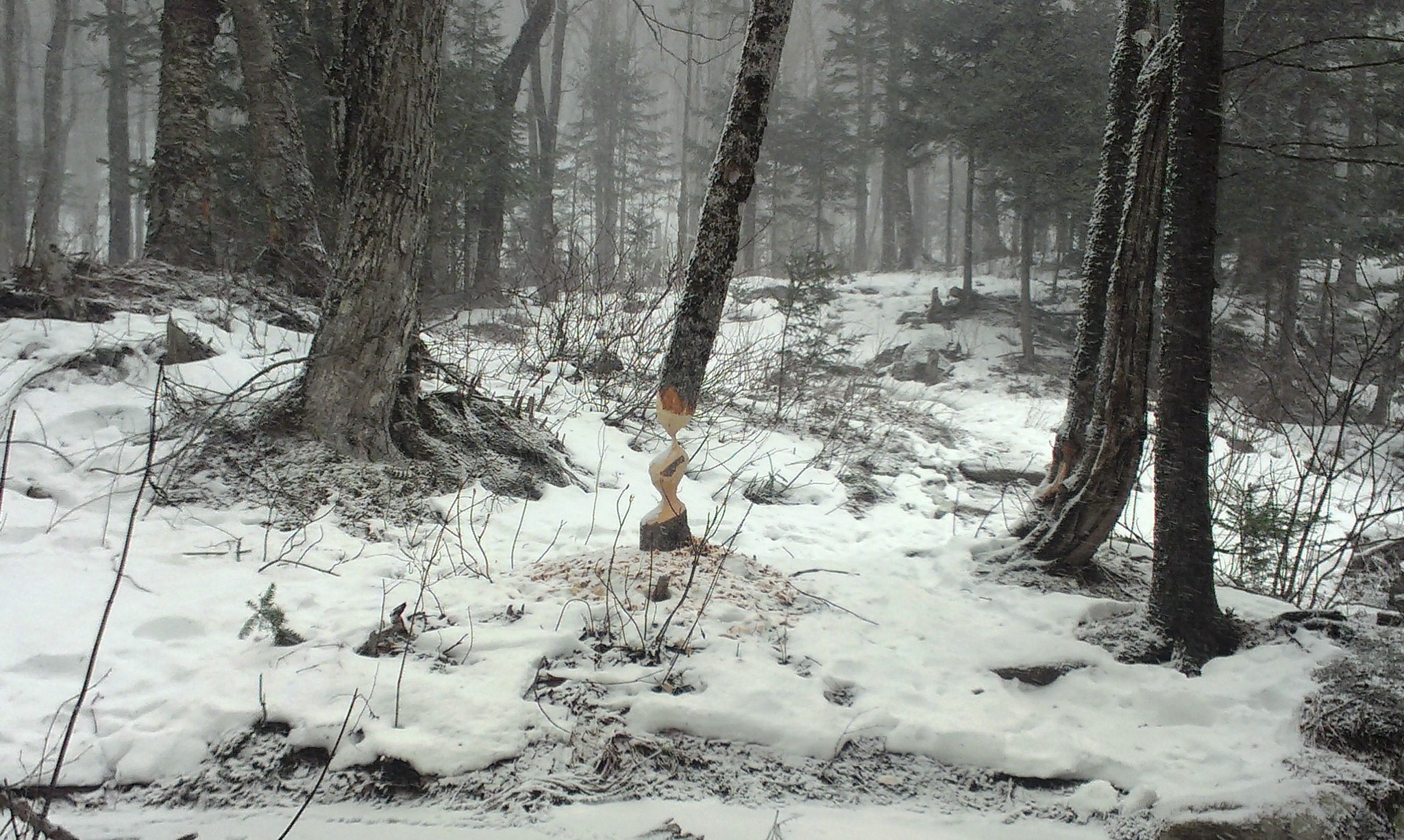 Surprised by a major snow melt, a beaver had to start all over again. (pic 1 of 2) 5 days of a specially warm weather for December in Quebec, followed by a -18° C ( the day the picture was taken).